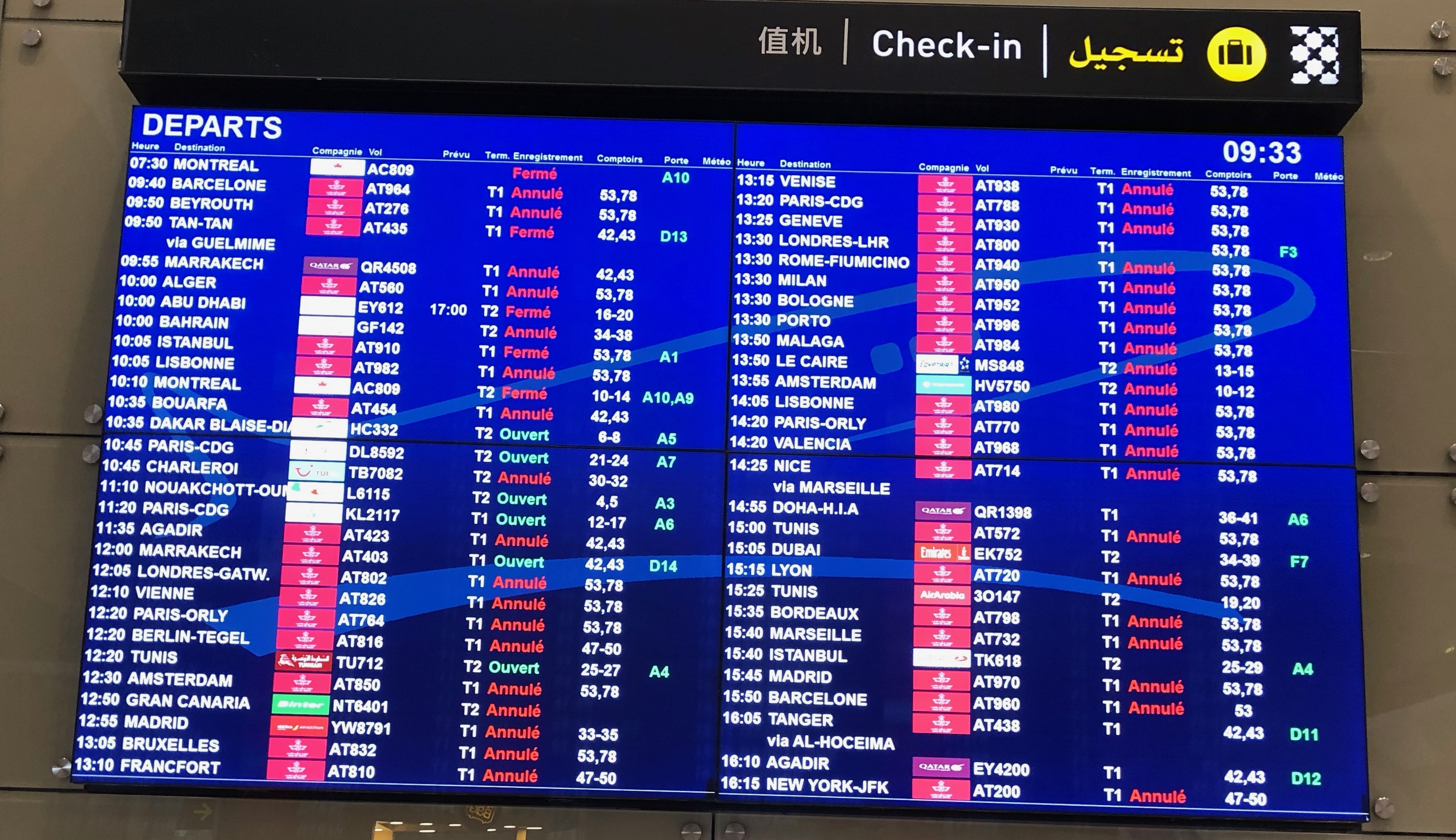 The government of Morocco cancelled all international flights.